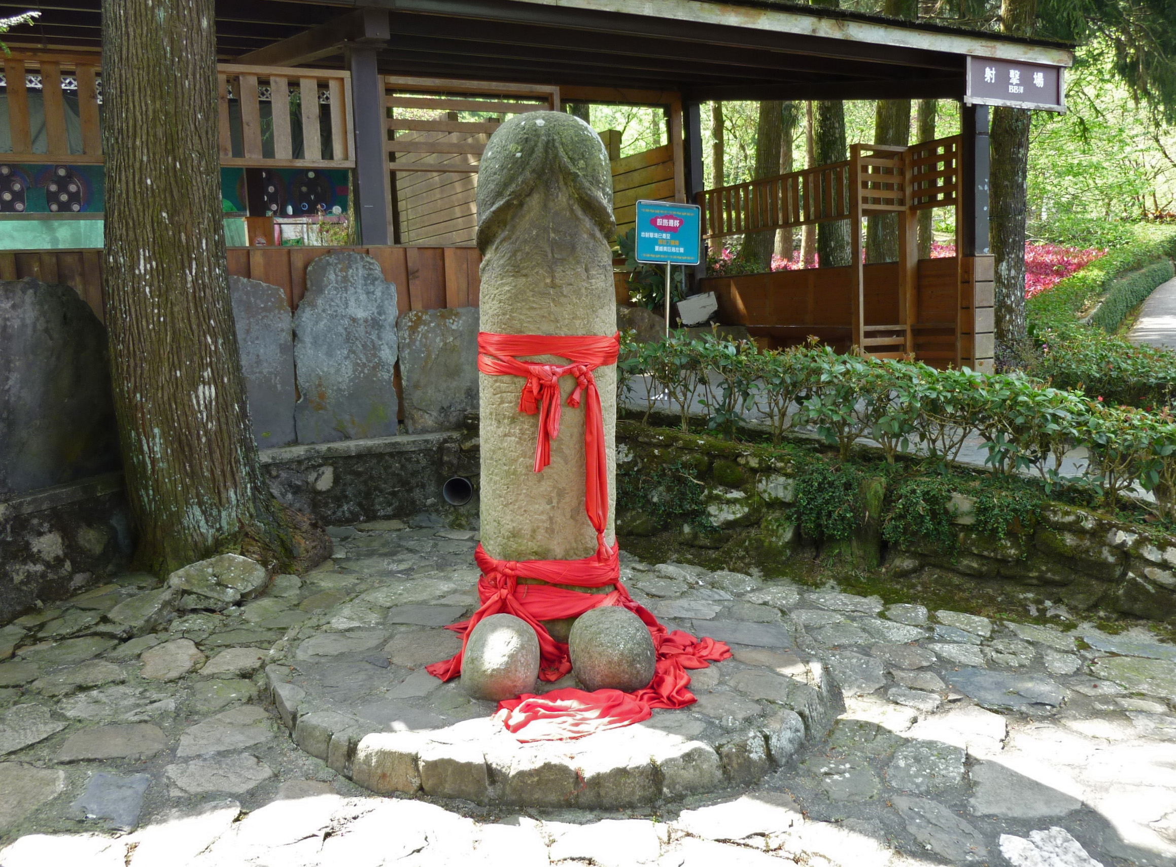 Sculpture of a phallus in Formosan Aboriginal Culture Village, Taiwan